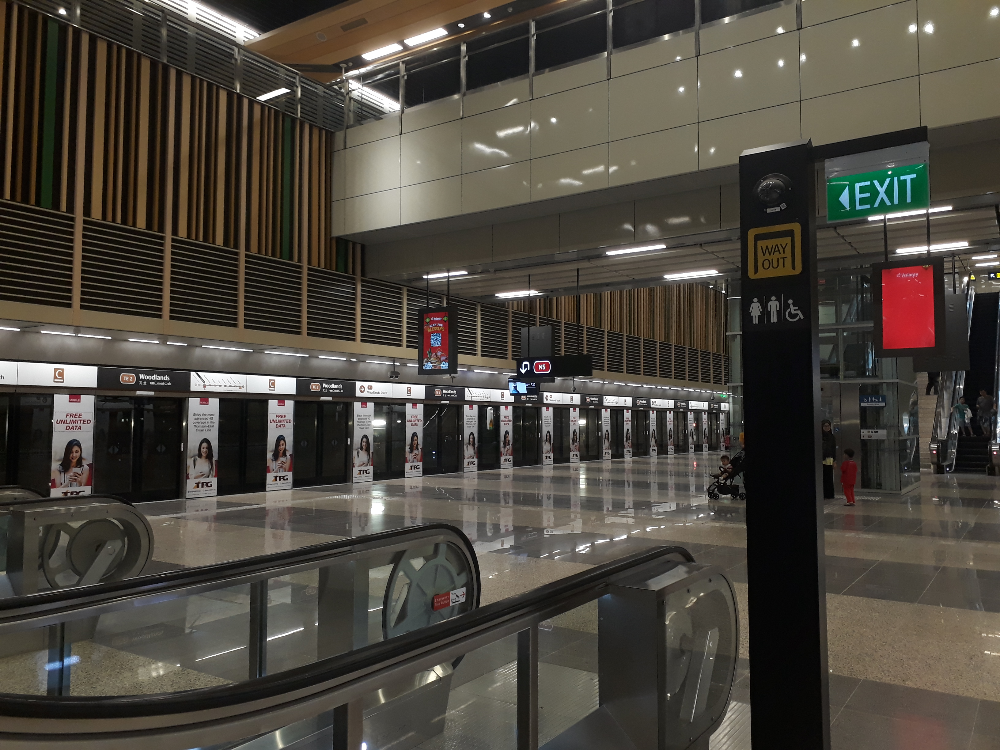 Woodlands TEL platforms